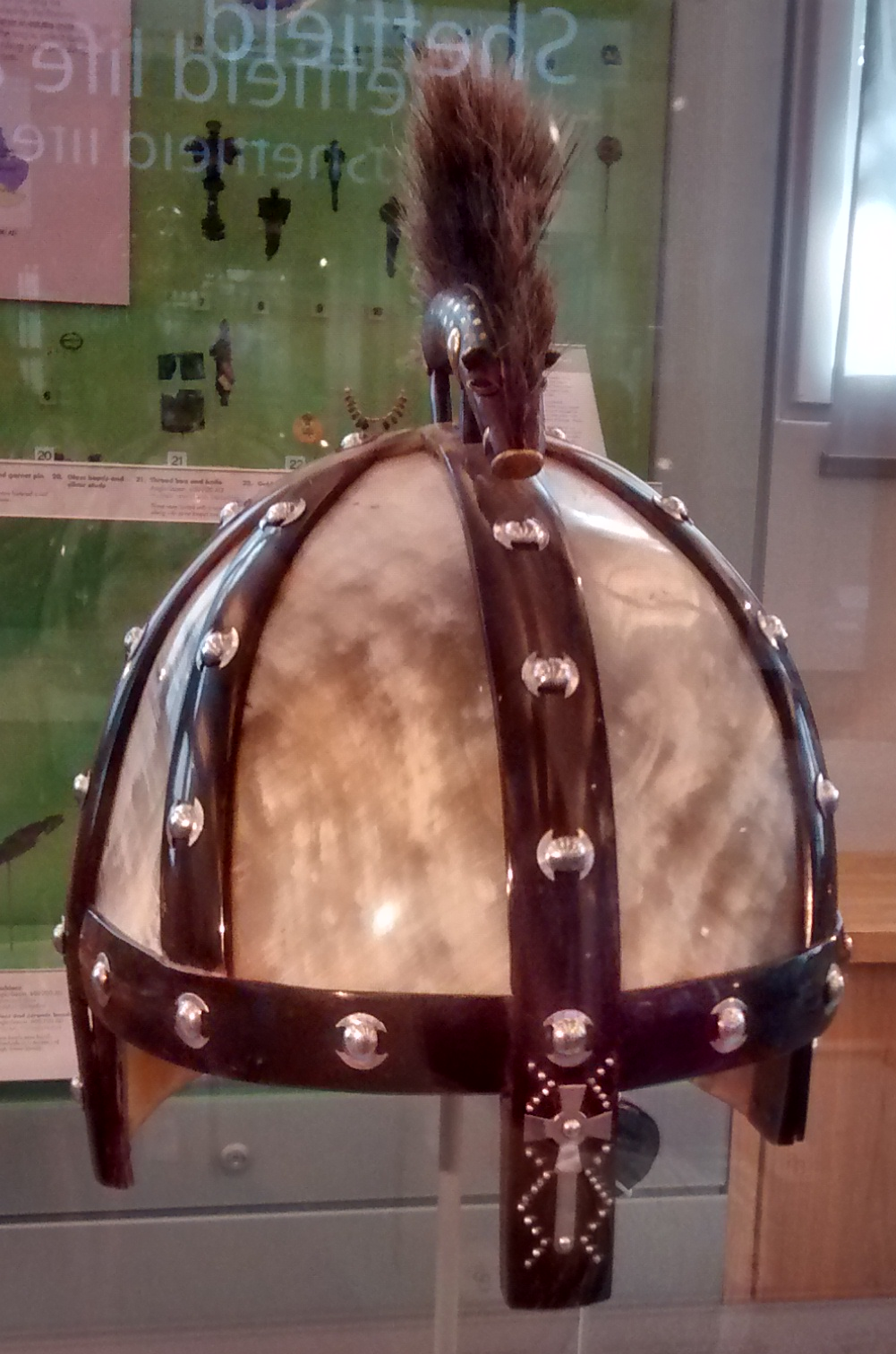 Photograph of the 1986 replica of the Benty Grange helmet, on view at Weston Park Museum in Sheffield.